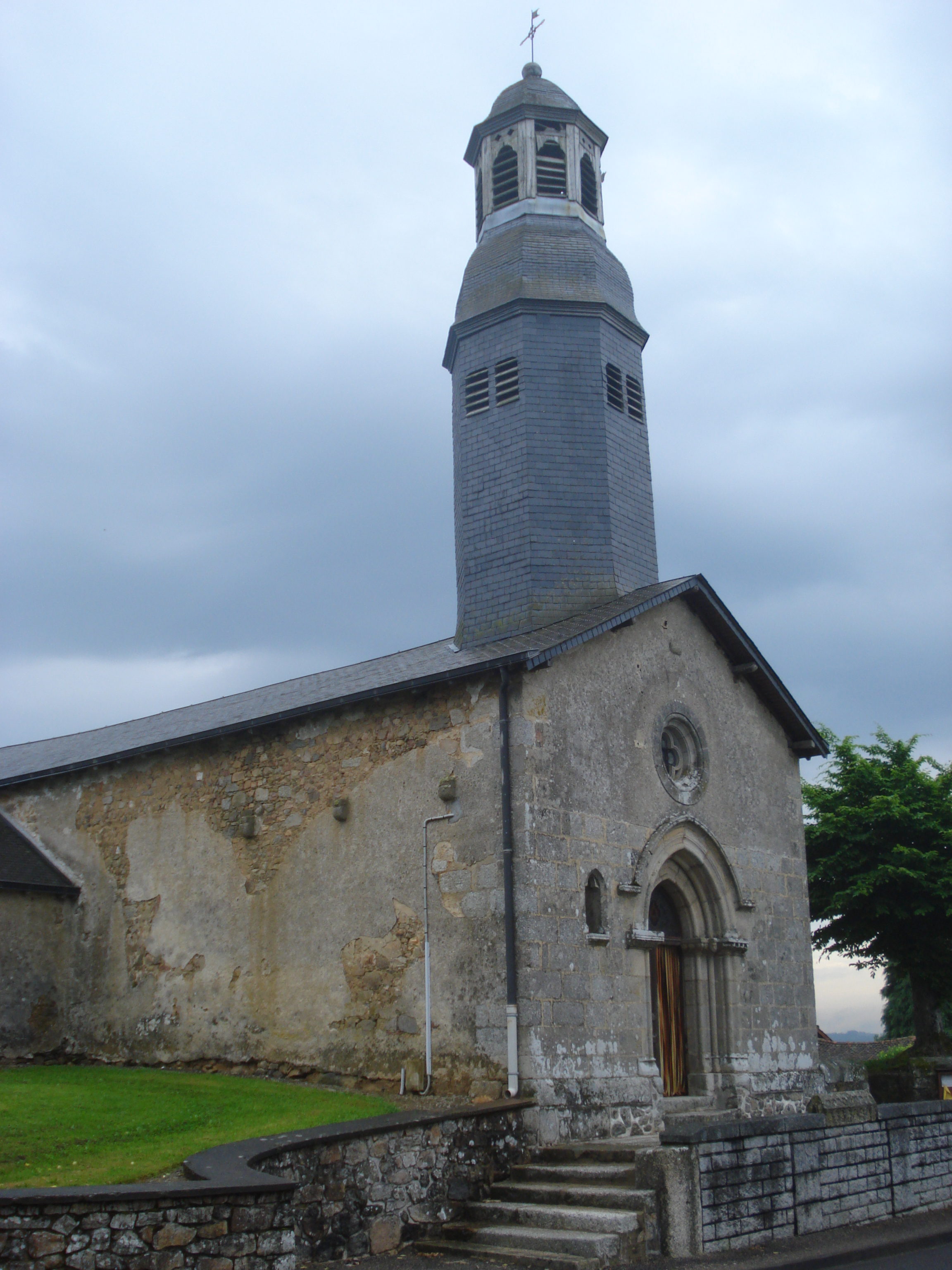 Le Châtenet-en-Dognon (Haute-Vienne, Fr), church